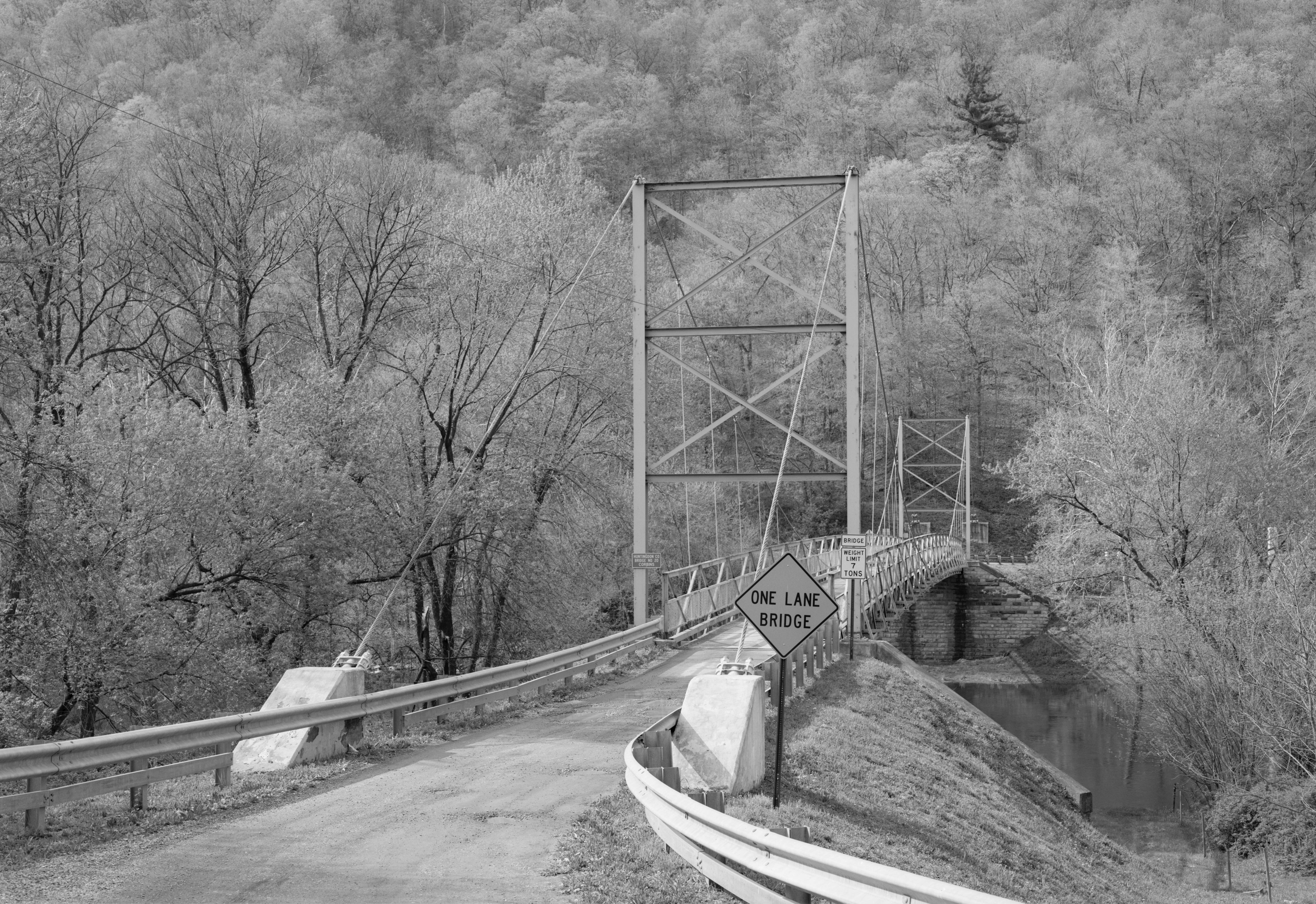 Eastern end of the Corbin Bridge, which carries Township Road 428 over the Raystown Branch Juniata River southwest of Huntingdon in Juniata Township, Huntingdon County, Pennsylvania, United States. Built in 1937, this suspension bridge is listed on the National Register of Historic Places.